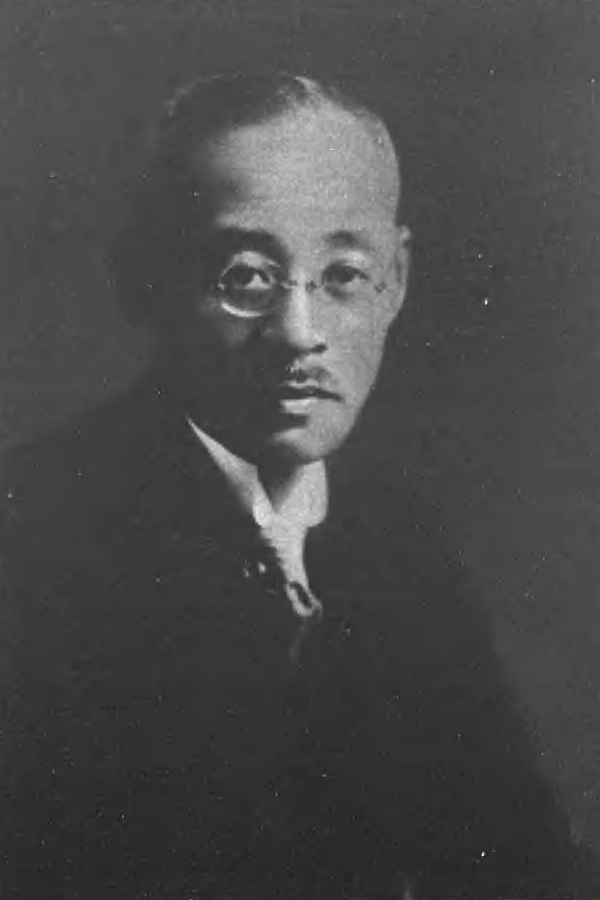 Okamoto Sakura